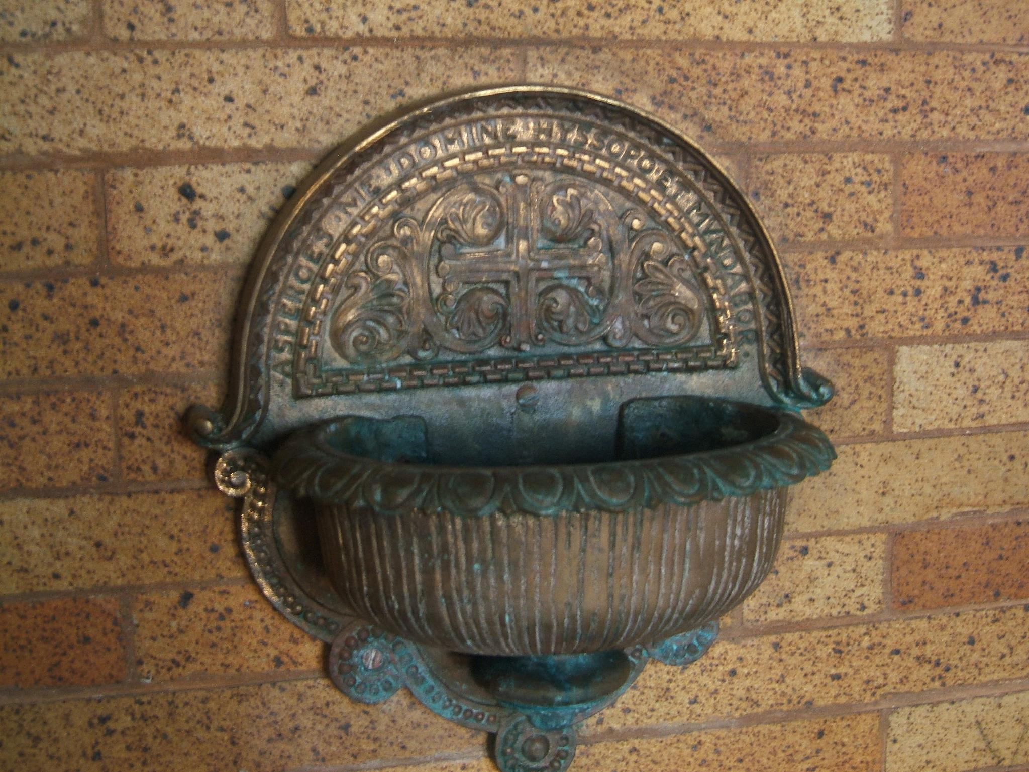 St. Stephen's Interior; Inscription: "Asperges me Domine hyssopo et mundabor" (from Psalm 50(51):7)